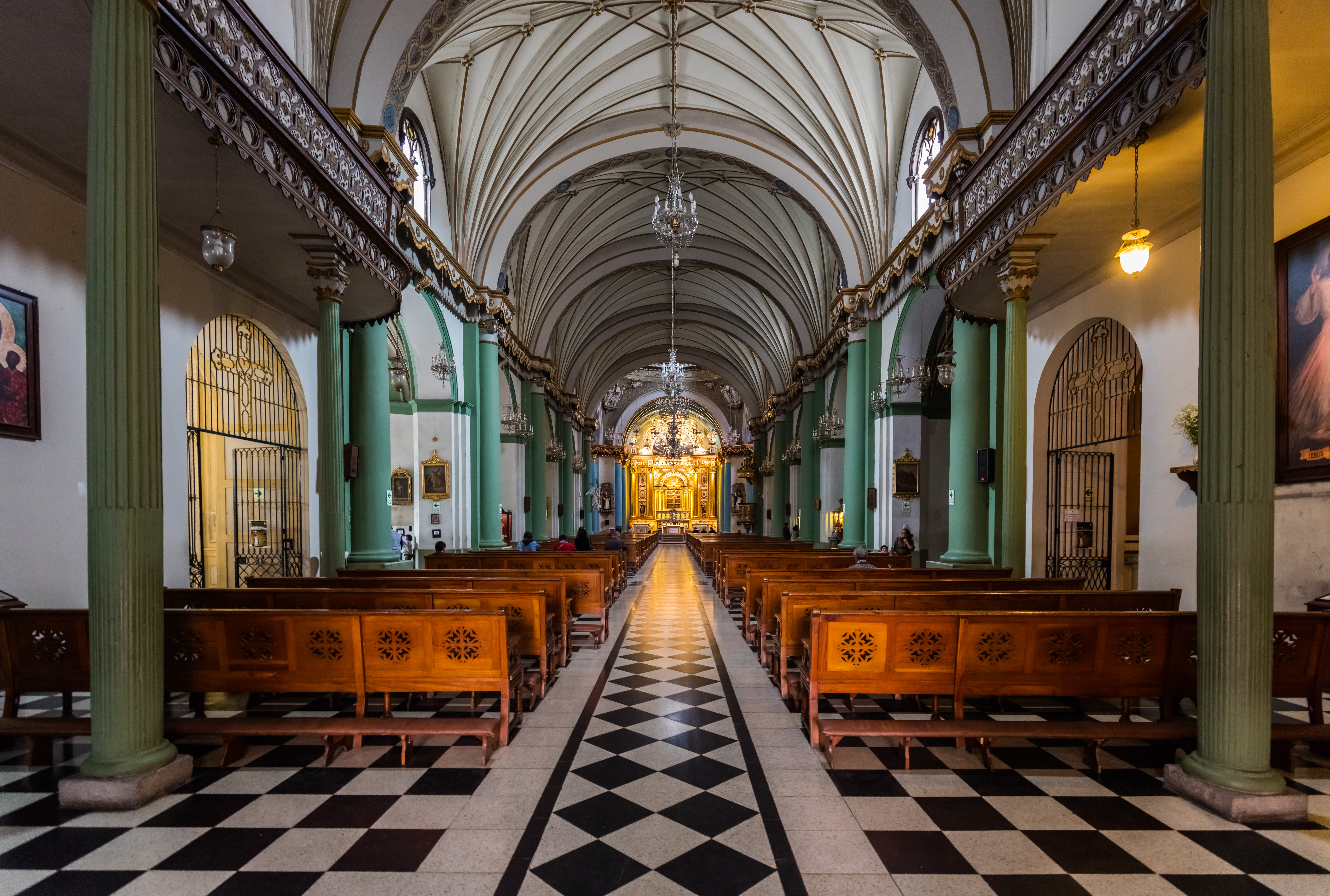 Church of St Domingo, Lima, Peru